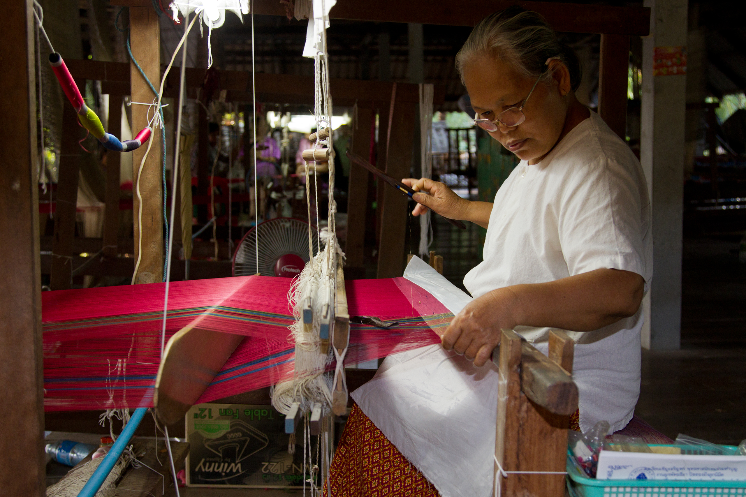 A person weaving silk at a loom, Ban Tha Sawang, Surin Province, Thailand